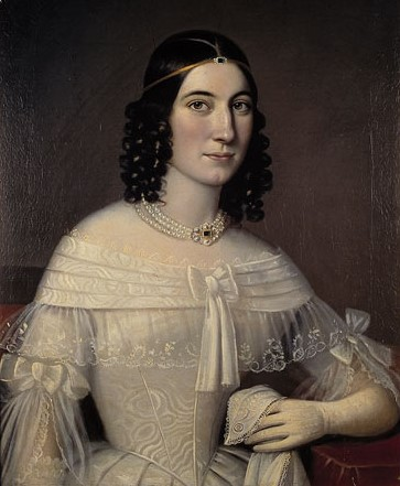 Portrait of Margaretha Etholén (1814–1894), the wife of Arvid Adolf Etholén, the eighth Russian governor of Alaska.